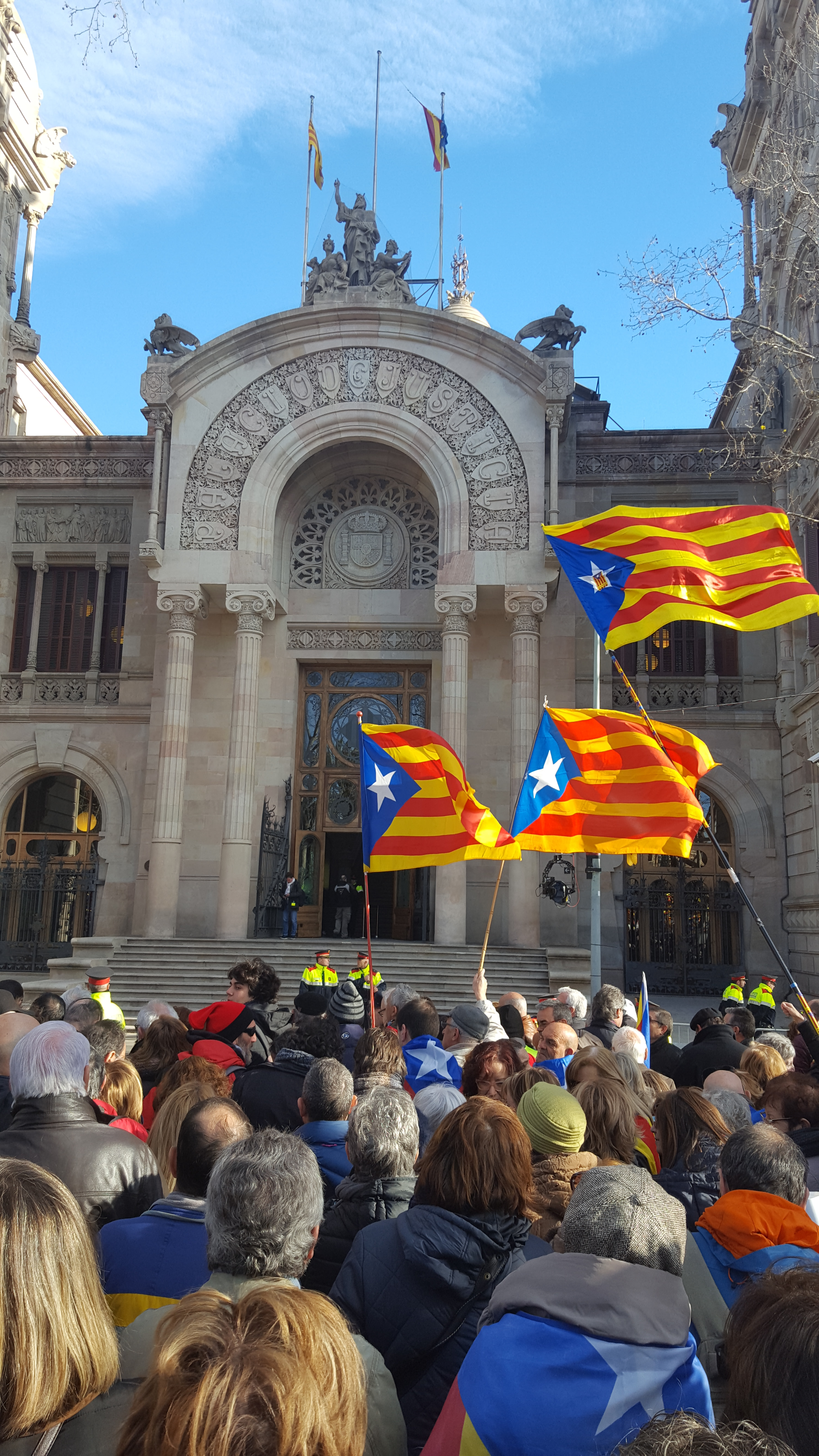 Protest against the trial of Artur Mas, Joana Ortega and Irene Rigau